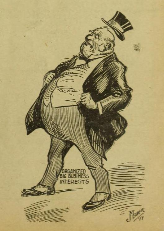 Cover of The Nonpartisan Leader.